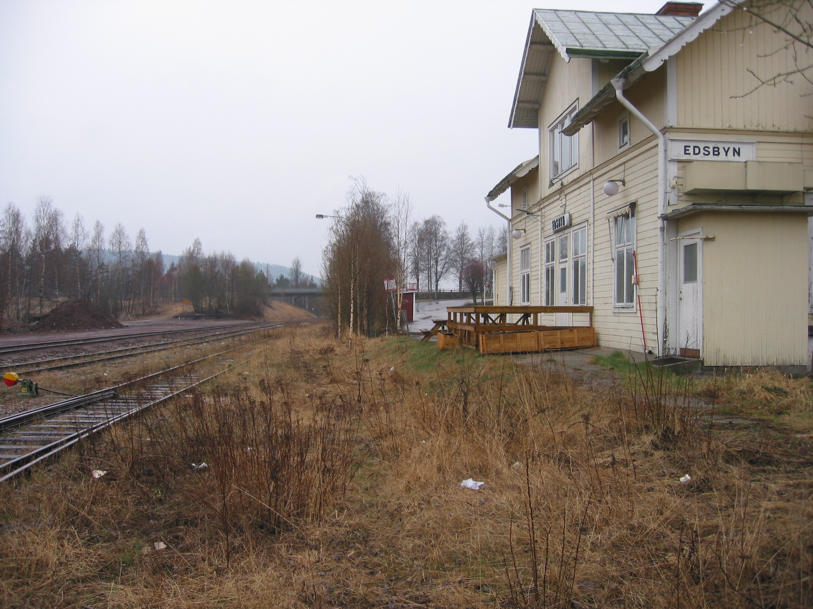 Edsbyn railway station, Sweden